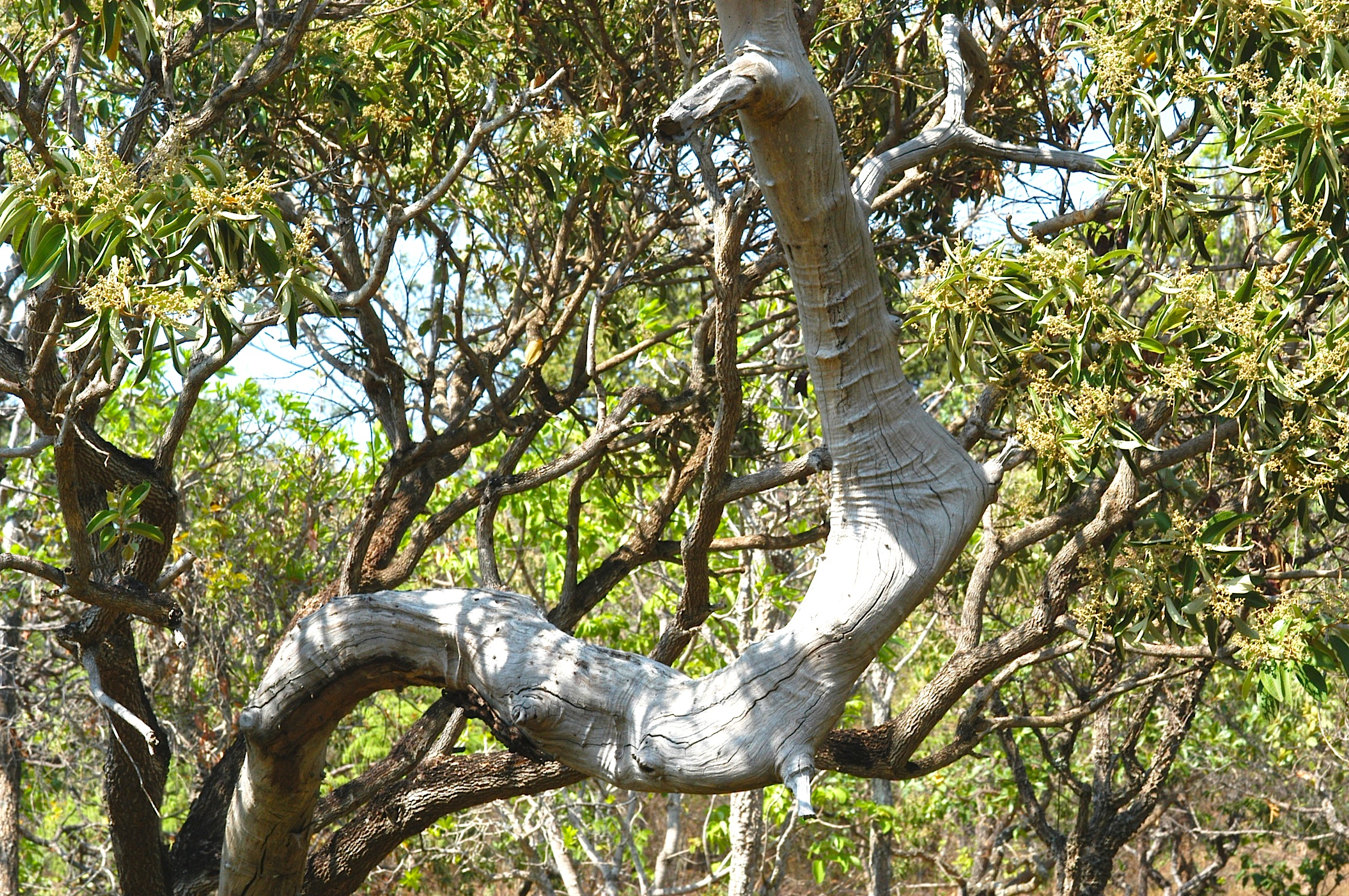 cerrado biome tree in central Brazil